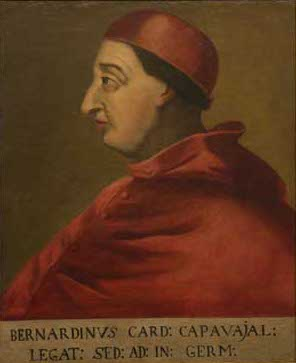 Cardinal Bernardino López de Carvajal y Sande